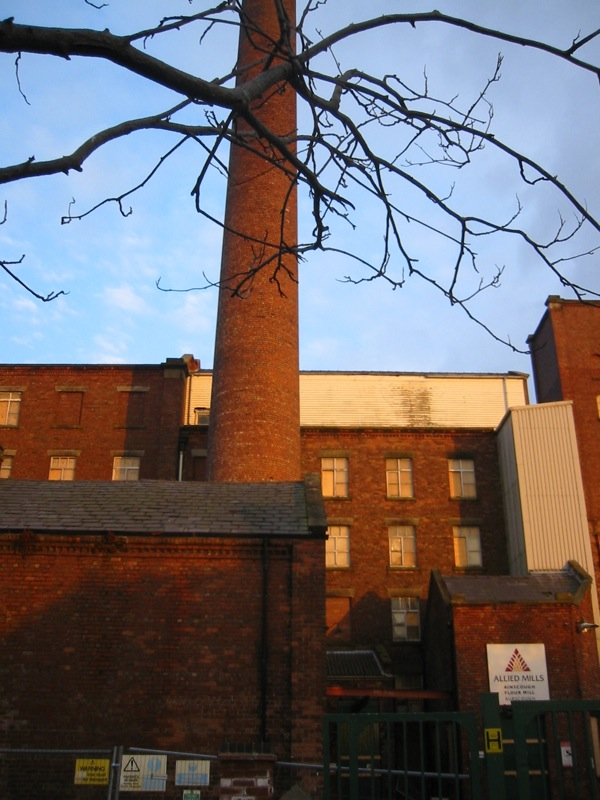 Derelict flour mill - H&R Ainscough Millers, Burscough, Lancs. Taken May 2007, Barbara Ainscough. To be included on Ainscough page - employment.